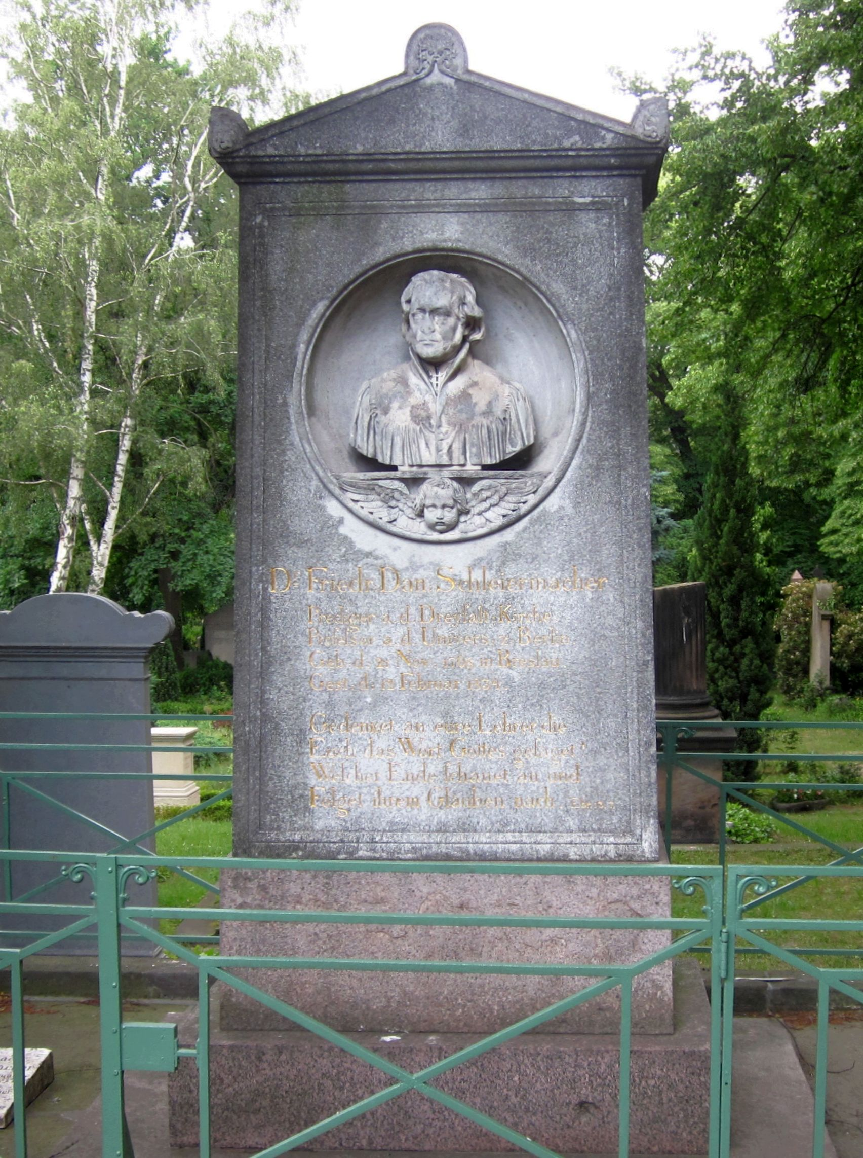 Grave of the theologian and philosopher Friedrich Schleiermacher (1768-1834) on the Cemetery II of Trinity Church at Bergmannstraße in Berlin-Kreuzberg. The design of the grave is by Ludwig Ferdinand Hesse; the bust of Schleiermacher was created by Fritz Schaper to a design by Christian Daniel Rauch. Grave of honor of the State of Berlin.